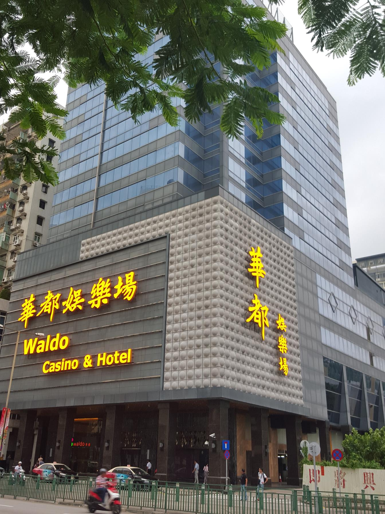 Hotel Waldo